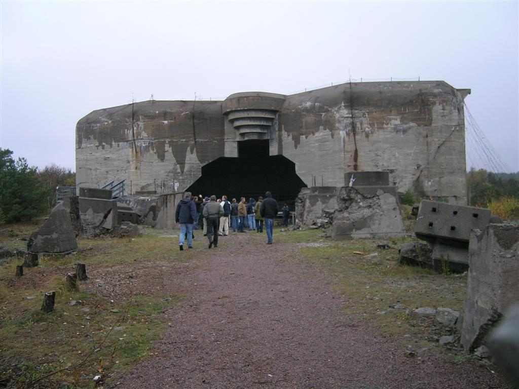 Casemate (WW2) at Batterie Vara in Kristandsand Norway